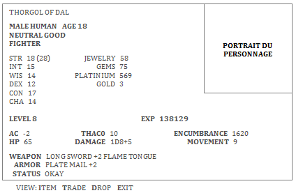 Diagram showing the functionalities of the interface of a character's sheet in the video game Pool of Radiance (1988).